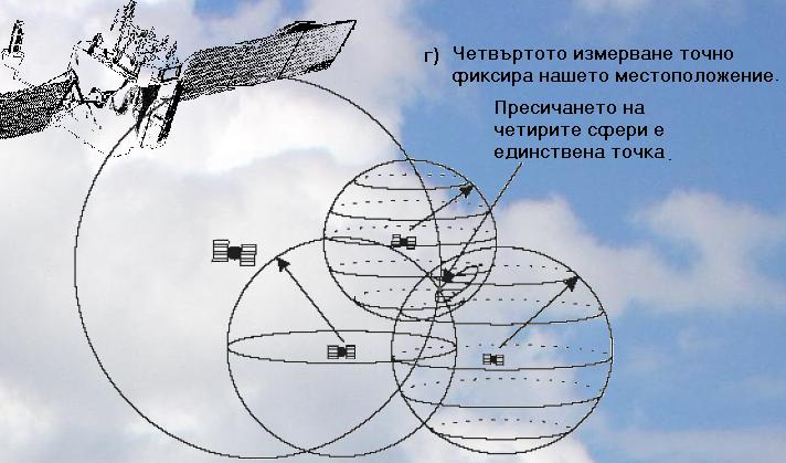 GPS-trilateration p3